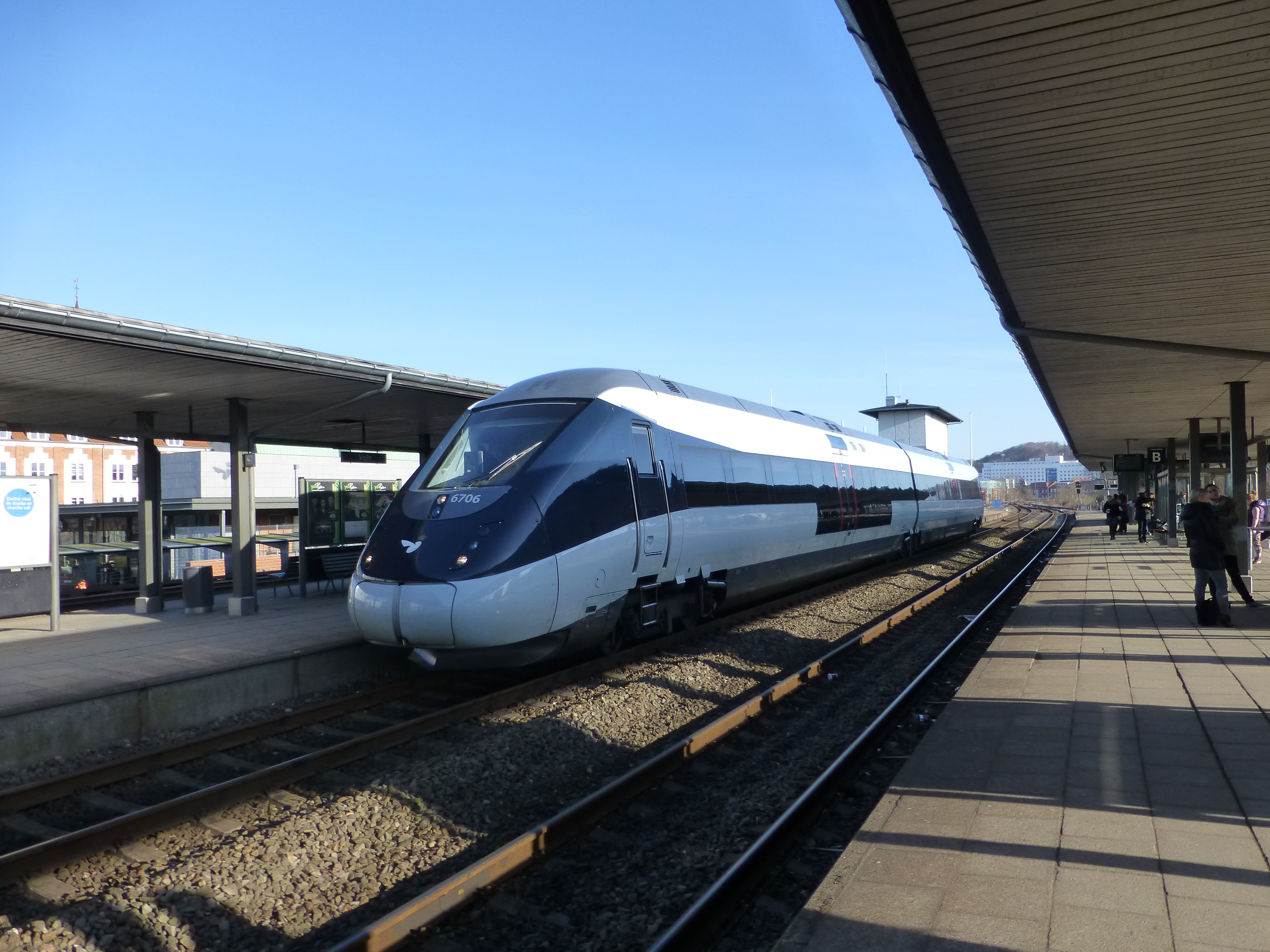 IC2 train 06 at Vejle Station in Denmark.